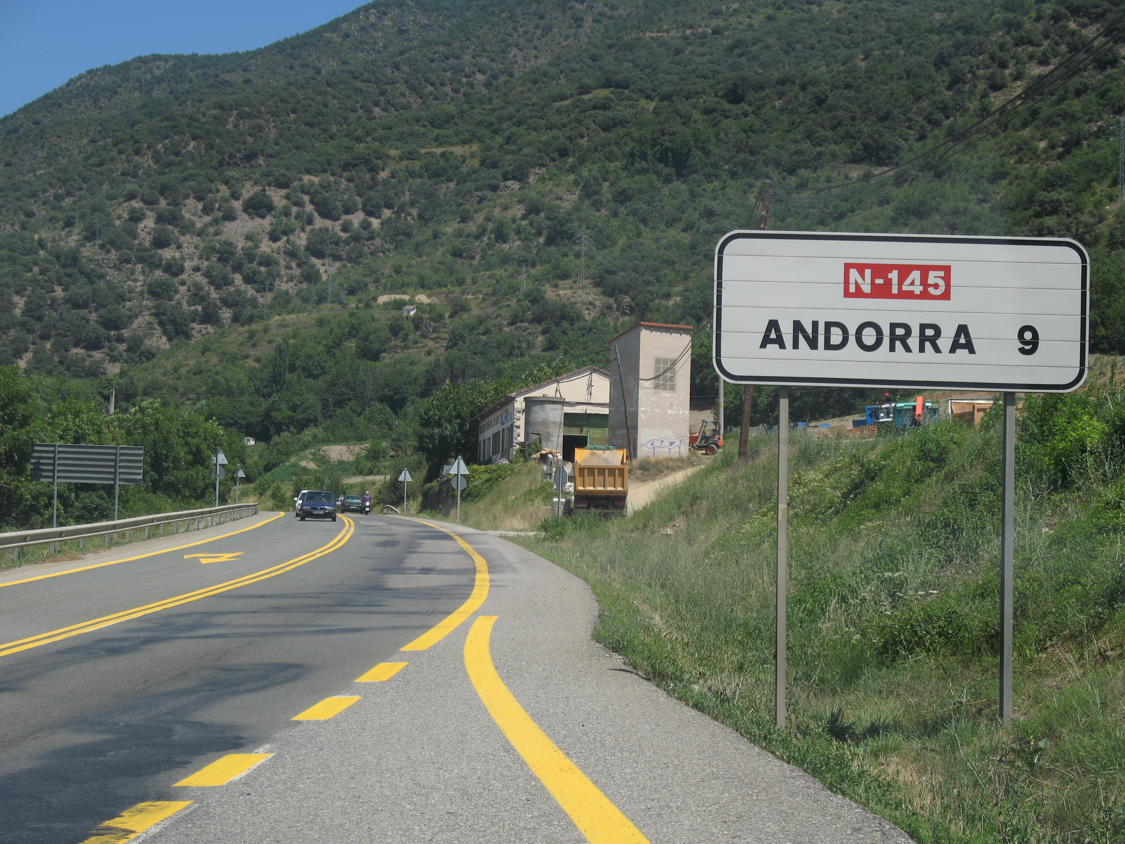 Spanish road N-145 to Andorra.